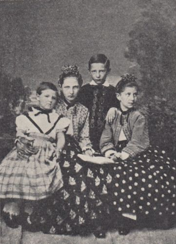 Left to right: Rosalie, Antonie, Friedrich and Marie Hruschka. Parents: Franz and Antonia Hruschka Photographs of Franz Hruschka (1819-1888) taken prior to 1888